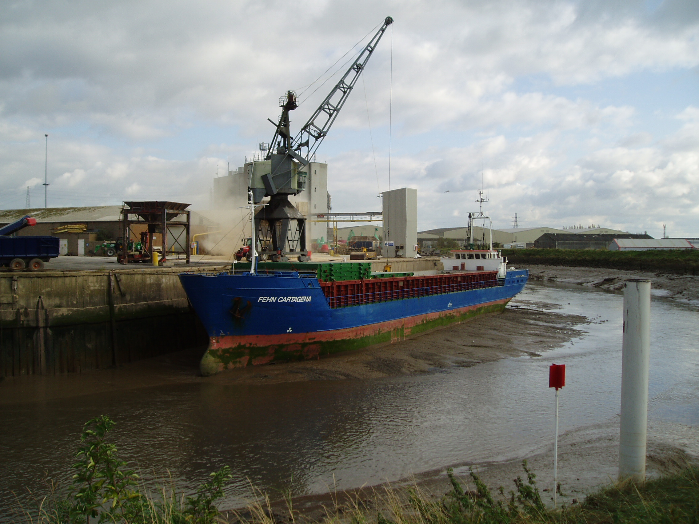 The "Fehn Cartagena" moored on a mud bank in The Haven at Boston, Lincolnshire, to unload a cargo of stone. Description of the ship is to be found at [1] IMO Number: 8222185 MMSI Number: 236194000 Callsign: ZDF09 Length: 75 m Beam: 10 m